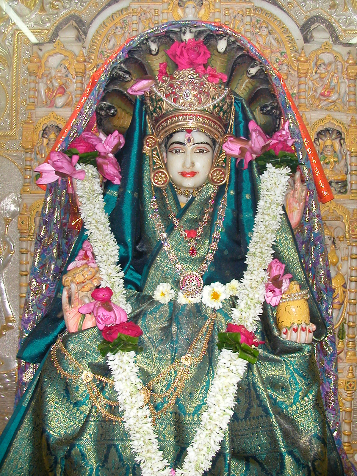 Personally photographed